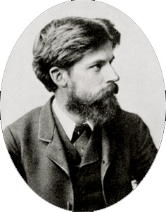 Photograph of Patrick Geddes in 1886